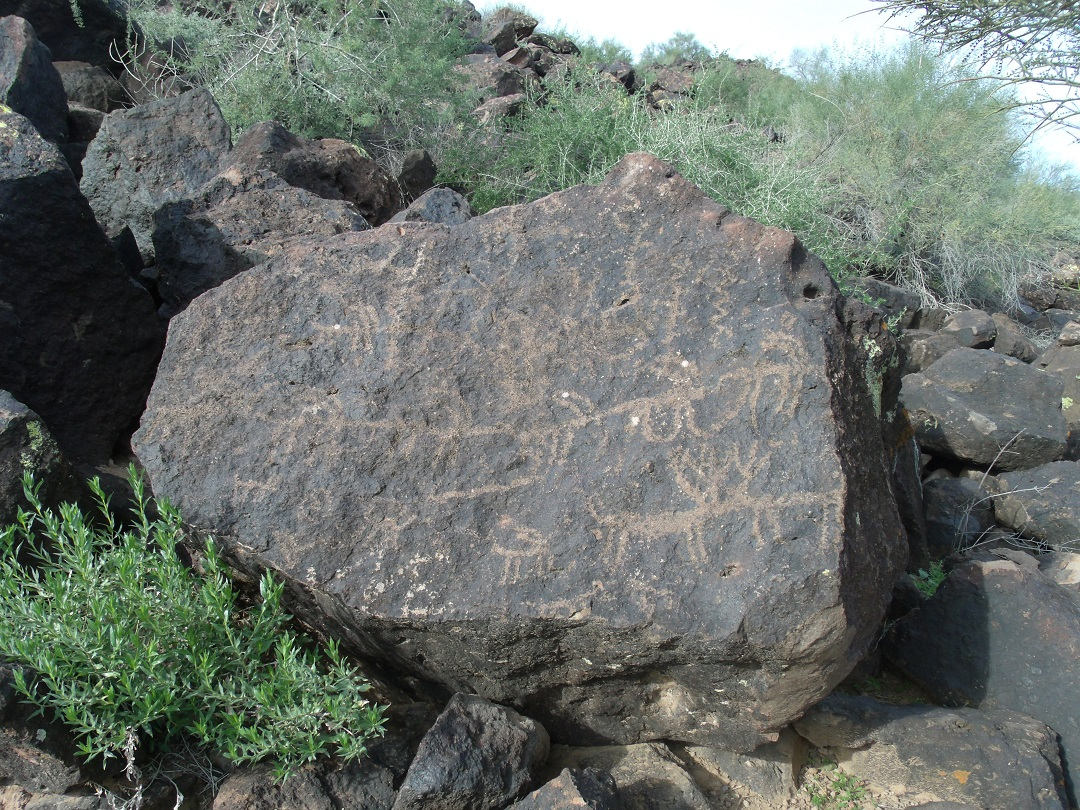 This Hohokam Petroglyph is that of a "scene". In the far right hand corner of the Petroglyph the Hohokams sketched two deer bumping heads. National Register of Historic Places ref: 84000718